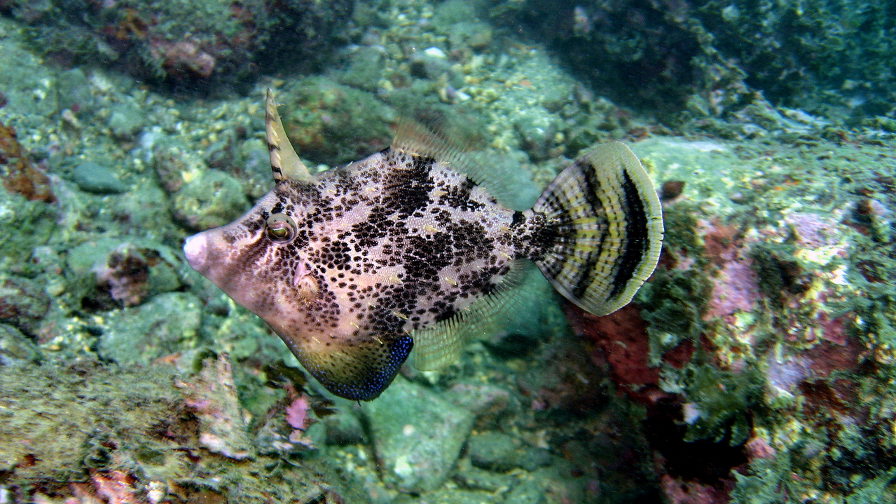 Also known as Fan-bellied leatherjacket, Fan-bellied filefish or Centreboard leatherjacket. This one was found in the nearshore water, Northeast Coast, TAIWAN